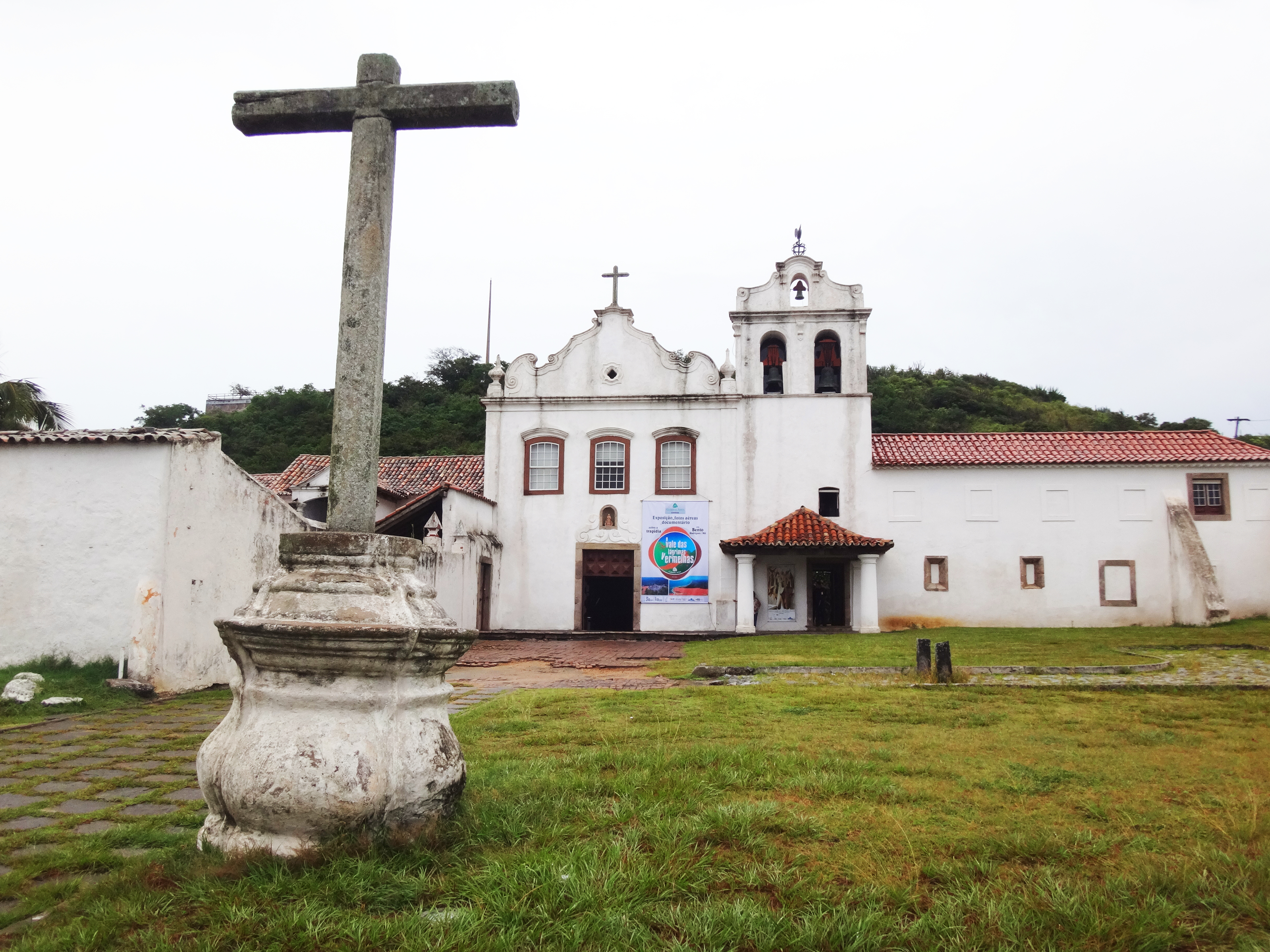 Anjos Convent (built 1684-1696) in Cabo Frio, Brazil